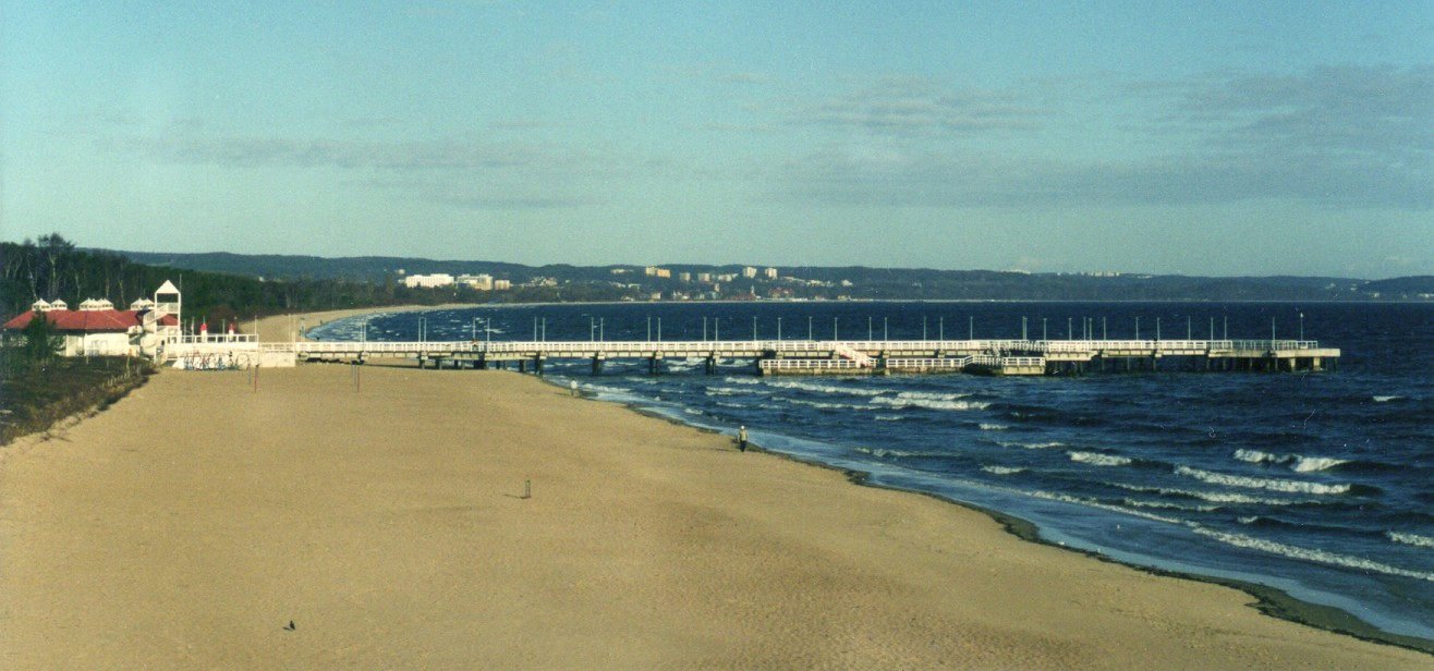 Pier in Brzezno (Gdansk, Poland)